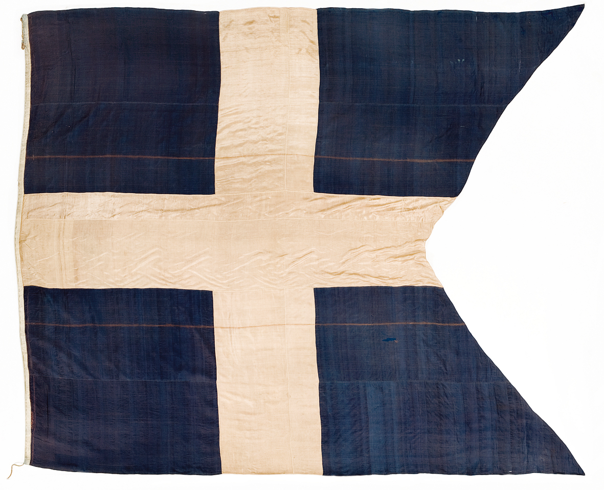 A two-tailed variant of the Swedish flag. This was used, among others, by the Swedish East India Company.